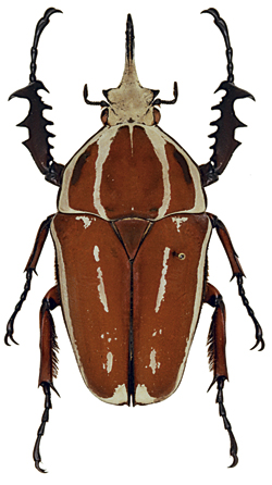 Mecynorhina ugandensis var. 22